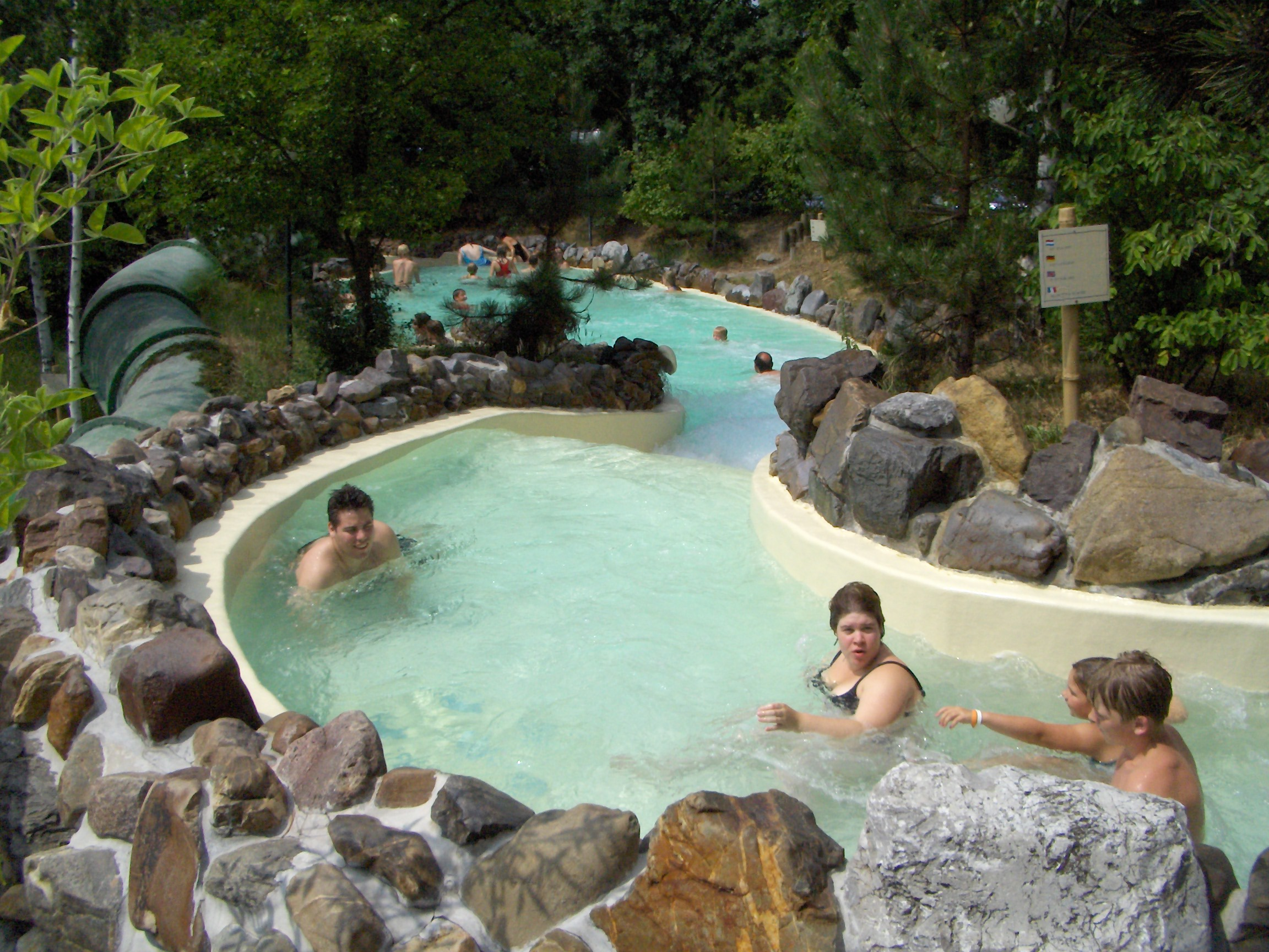 Wild water channel in Het Meerdal.